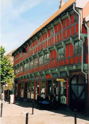 House of Danish squire and national hero Niels Ebbesen in Randers